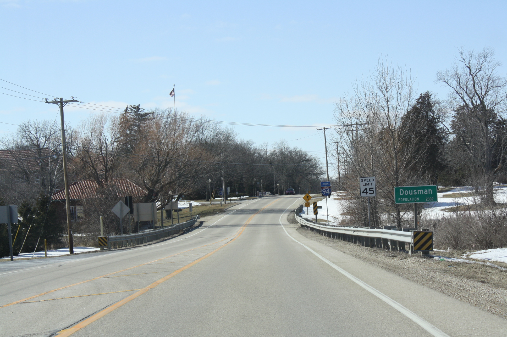 Looking west at the sign for Dousman, Wisconsin on U.S. Route 18.